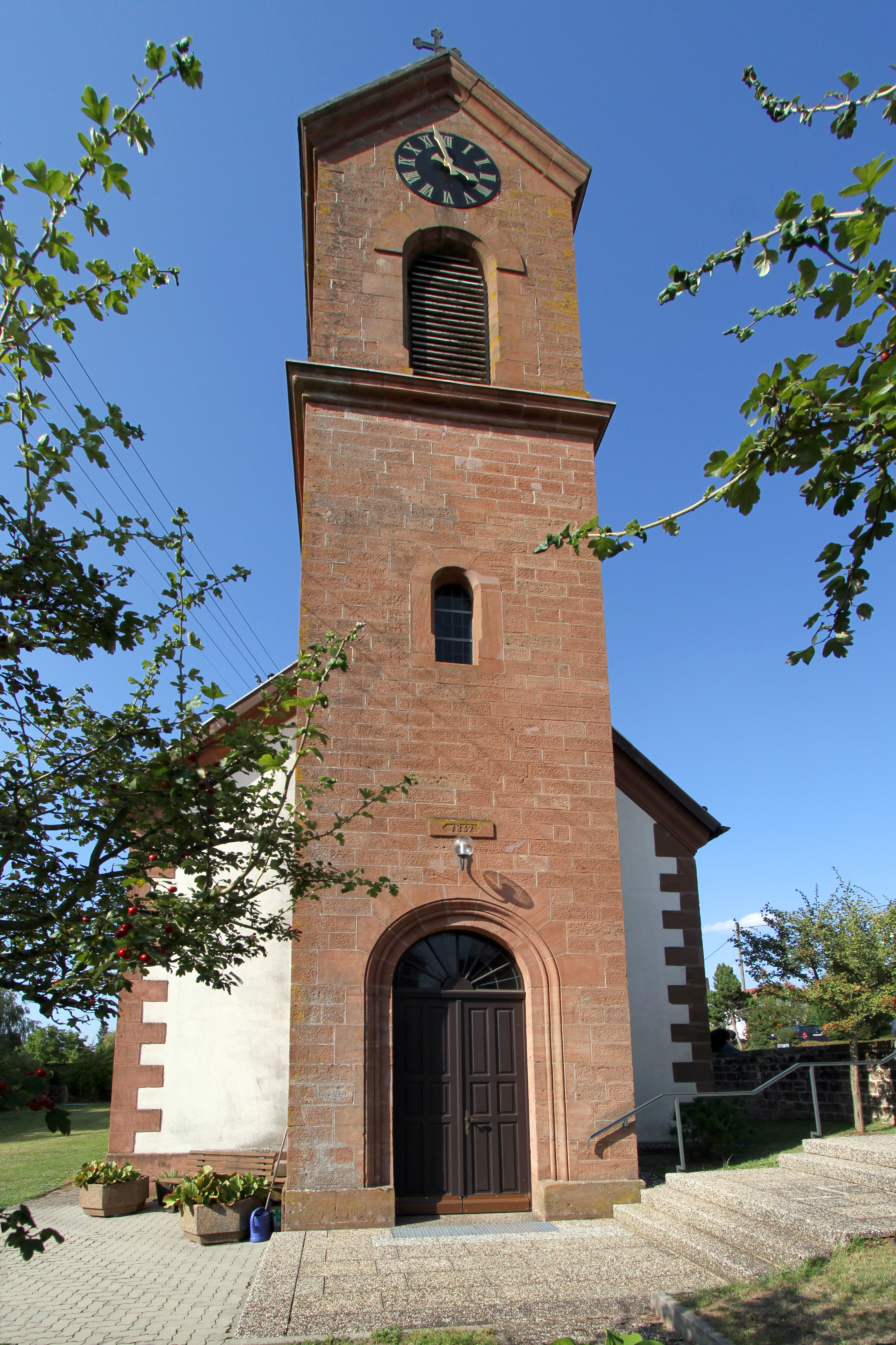 Church of Visitation of the Virgin Mary in Schweix.